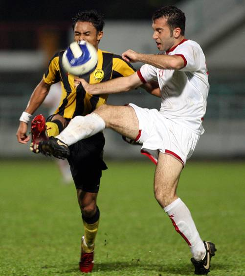 Malaysia's Mohd Aidil Zafuan, left, challenges Syria's Abdal Kader Dakka during the Olympic quallifying round at Petaling Jaya